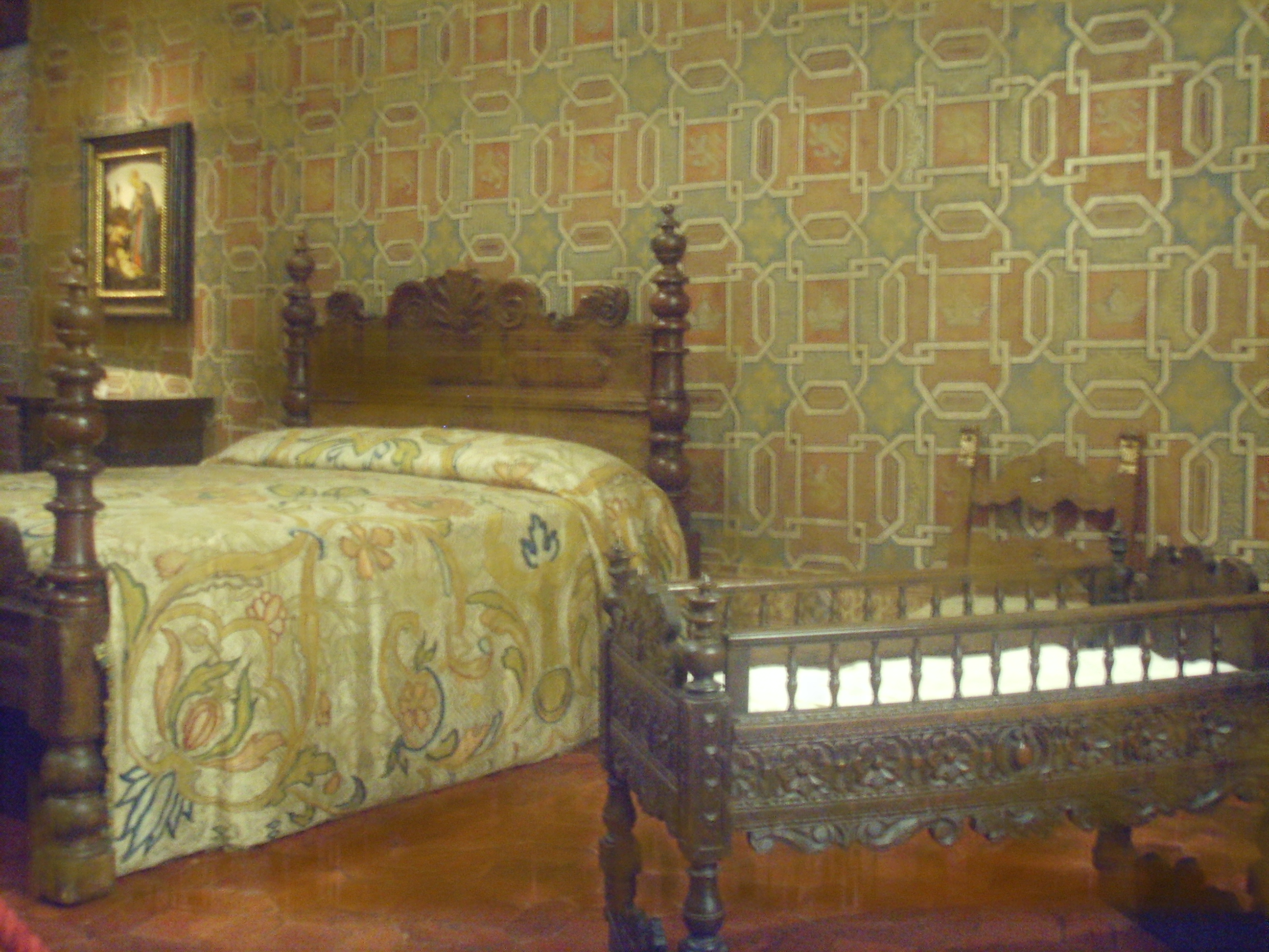 Davanzati Palace, Museum of antique florentine house (Museo della Casa fiorentina antica) Sleeping room in Florence, Italy